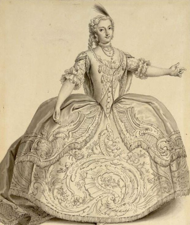 Antigono by Johann Adolph Hasse (staged at Dresden Court Theatre 20 January 1744) Costume designs by Francesco Ponte (b. 1725) - Berenice (sung by Faustina Bordoni) fig. 1 of 9 (+title page)